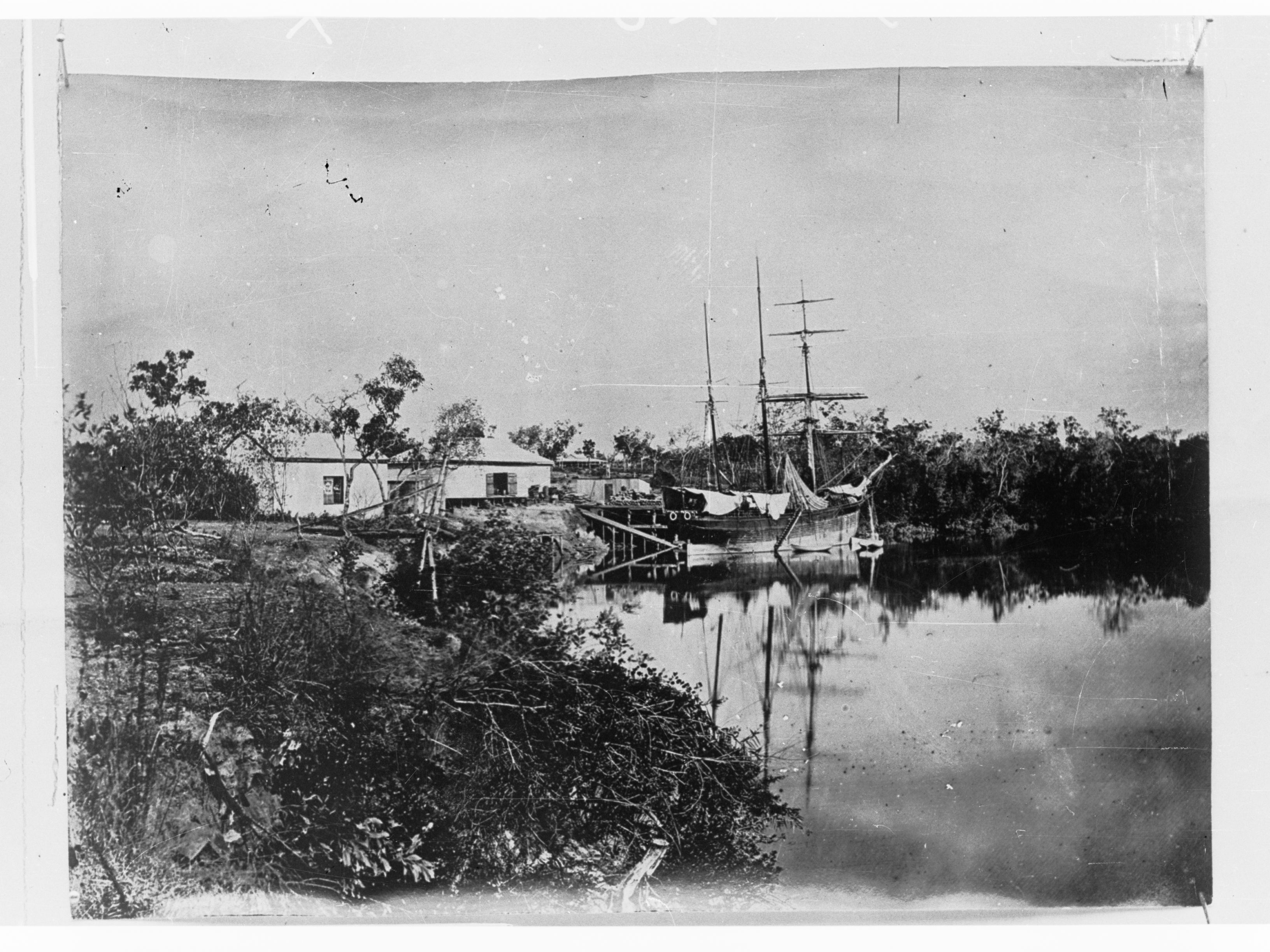 Same photograph as 2674B. See also 2909/2985. (G Brooks)